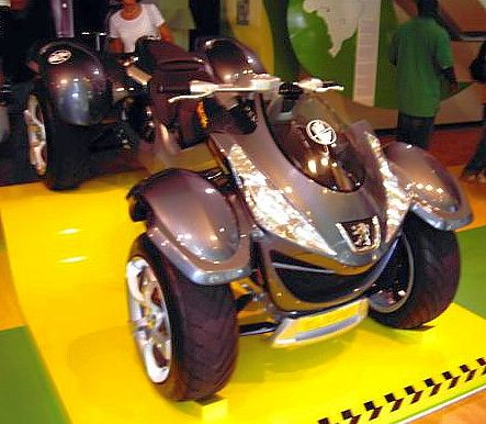 The concept car Peugeot Quark in the Berlin Peugeot Avenue